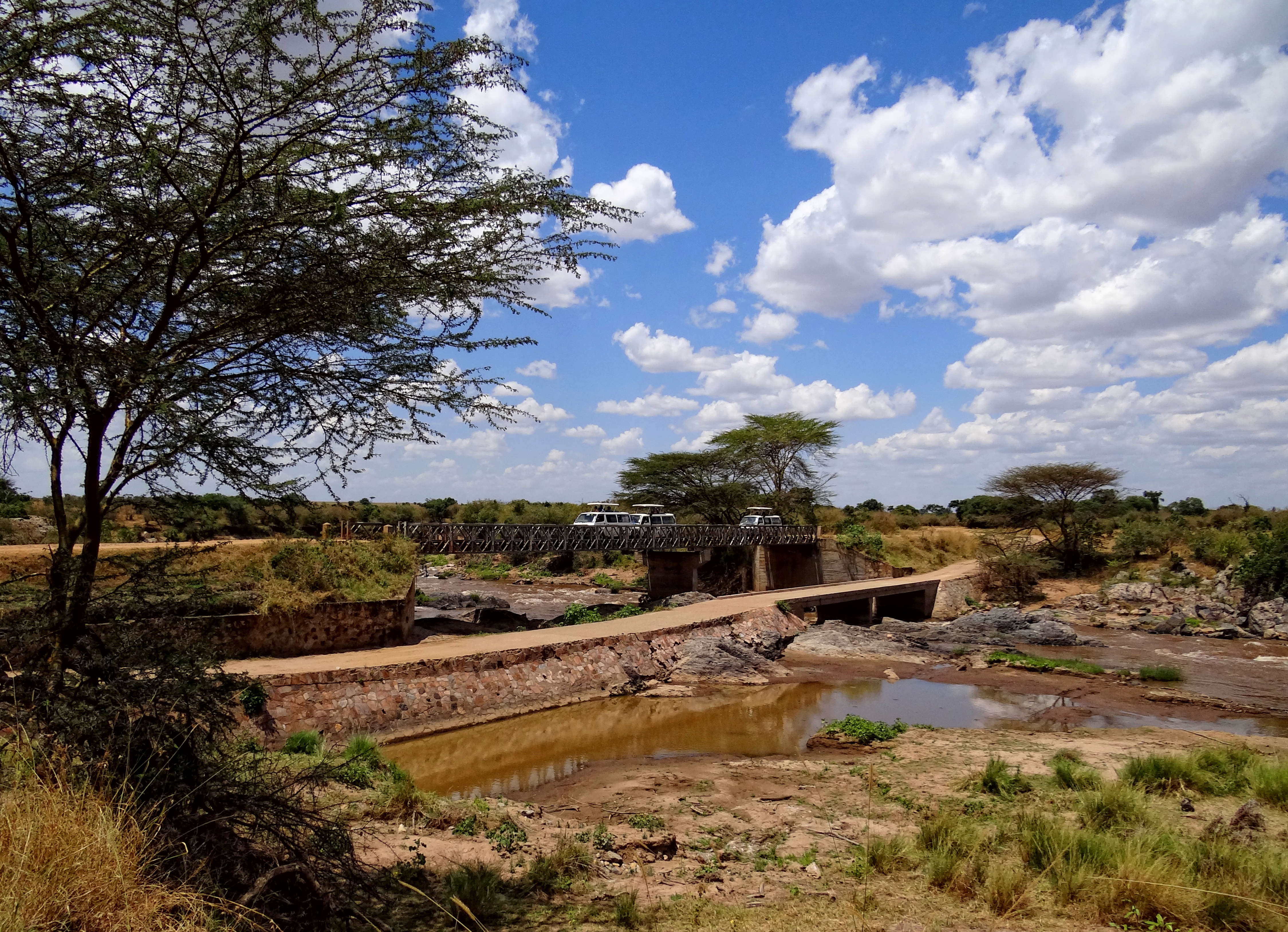 Two bridges practically on the border between Kenya and Tanzania, across the river Mara, with national reserves/parks on both sides. There is a tiny office here where crossing the border formally CAN be done, but it is little used. During the Great Migration, some animals choose to walk across the river here instead of risking death by crocodile elsewhere along the river. Apart from that, the bridges are generally used mainly by safari vehicles, returning quickly to where they came from without going through a formal border crossing.